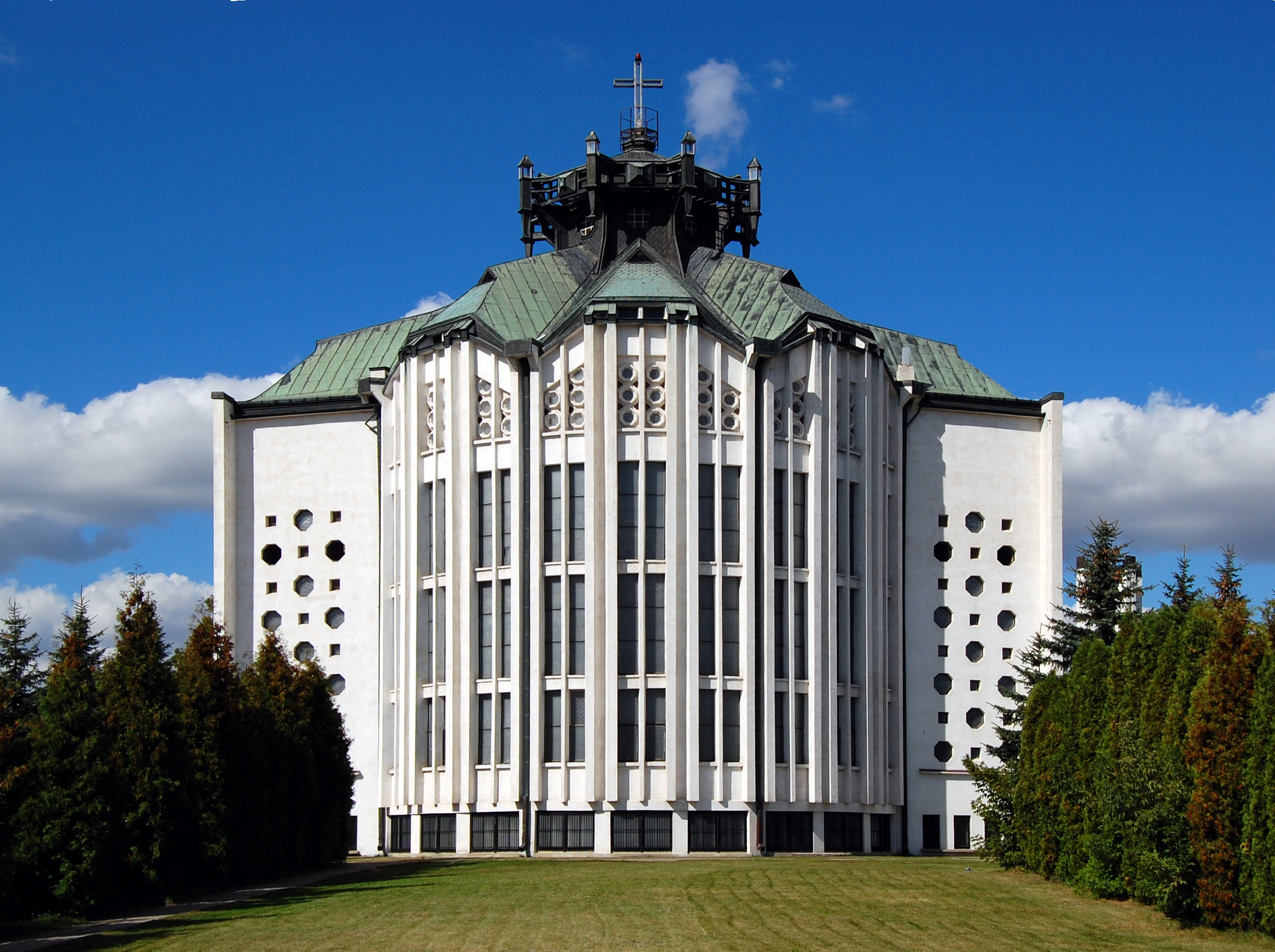 Church in Dęblin, Lublin Voivodeship, Poland.